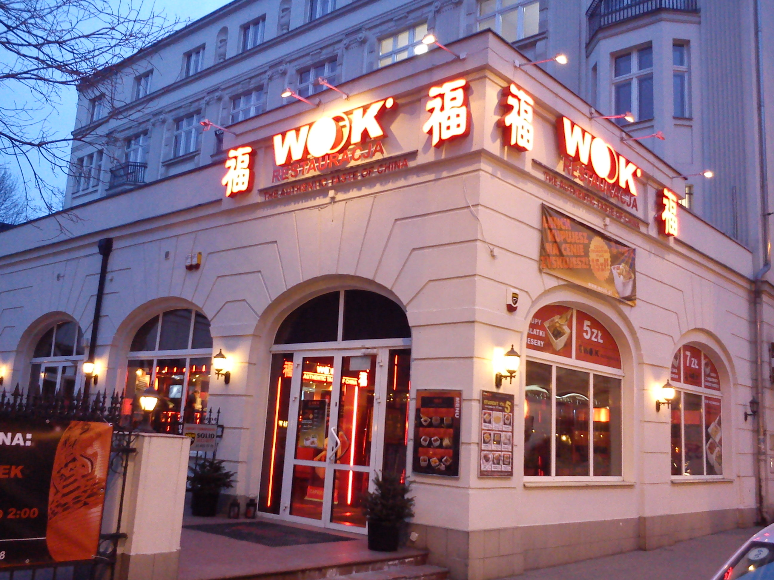 WOOK-restaurant in Poznań, Fredry street.